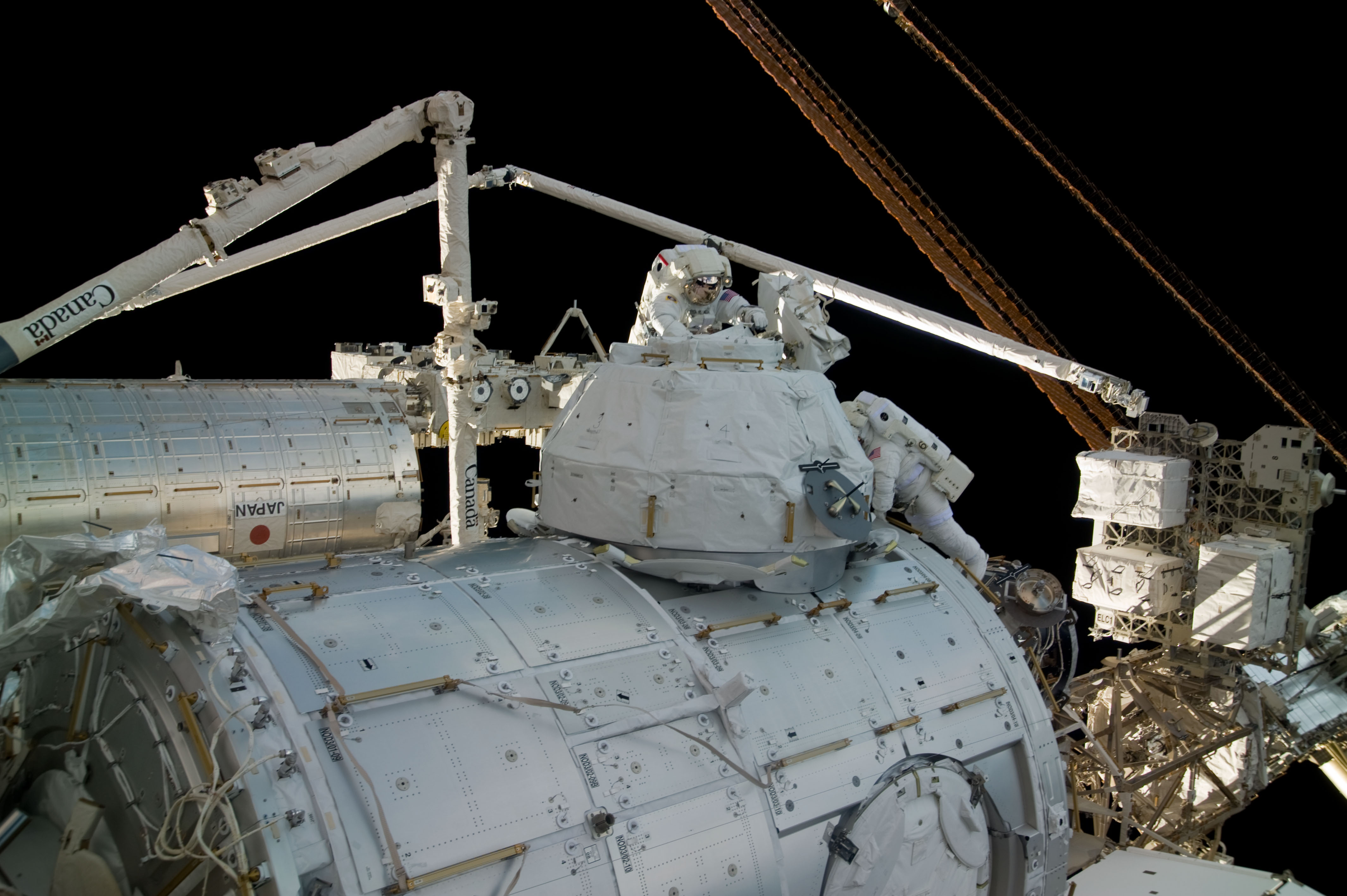 NASA astronauts Robert Behnken (top) and Nicholas Patrick, both STS-130 mission specialists, participate in the mission's third and final session of extravehicular activity (EVA) as construction and maintenance continue on the International Space Station. During the five-hour, 48-minute spacewalk, Behnken and Patrick completed all of their planned tasks, removing insulation blankets and removing launch restraint bolts from each of the Cupola's seven windows.